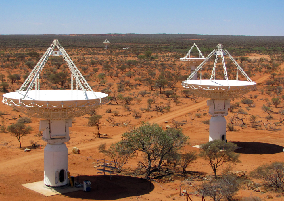 CSIRO's ASKAP antennas at the Murchison Radio-astronomy Observatory in Western Australia, 2010. Image credit: CSIRO.